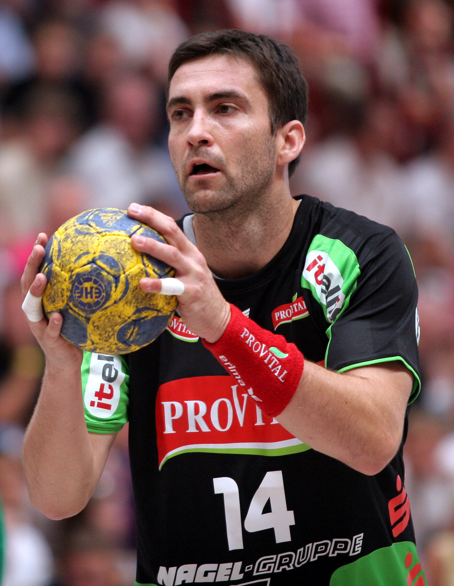 Mark Schmetz, handball player from The Netherlands, playing for TBV Lemgo on August 30th, 2008 in Ehingen during a game for the Schlecker Cup 2008